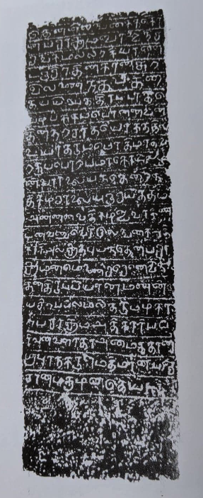 Panduvasnuvara inscription of Nissanka Malla